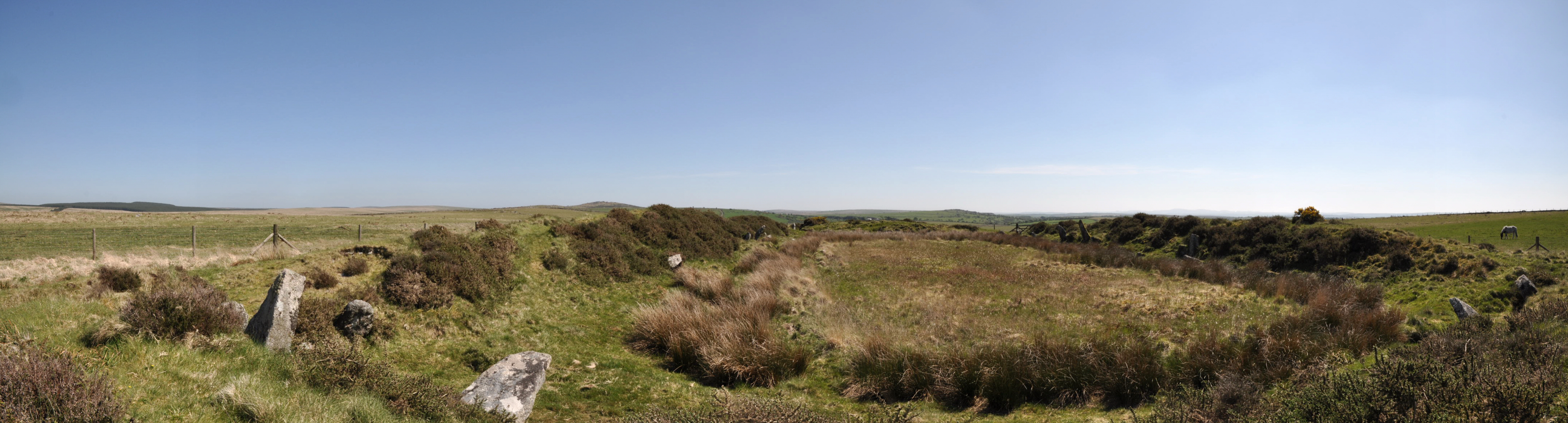 King Arthurs Hall, Megalithic Monument on Bodmin Moor